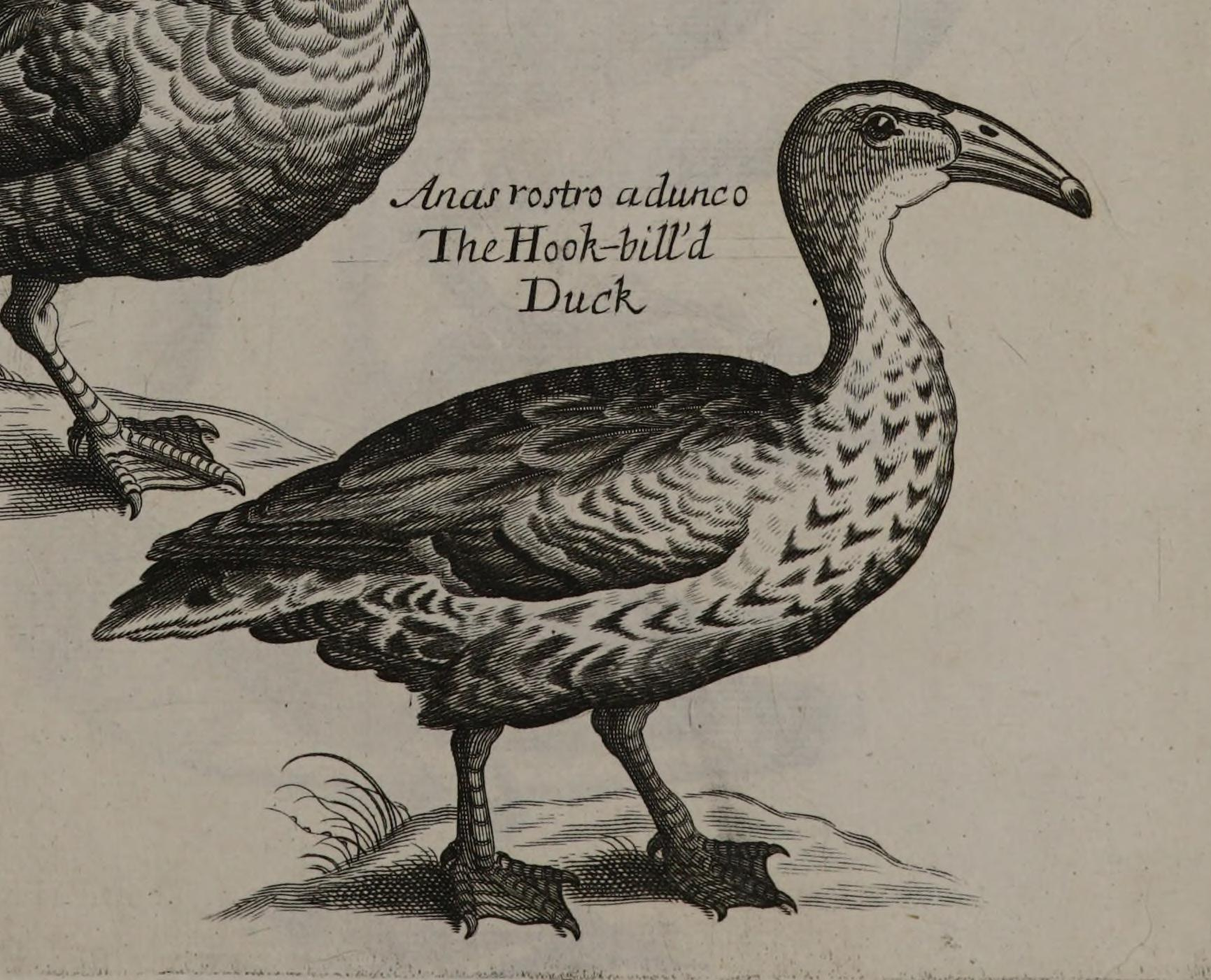 Francis Willughby (1676), Ornithologiæ libri tres, plate LXXV